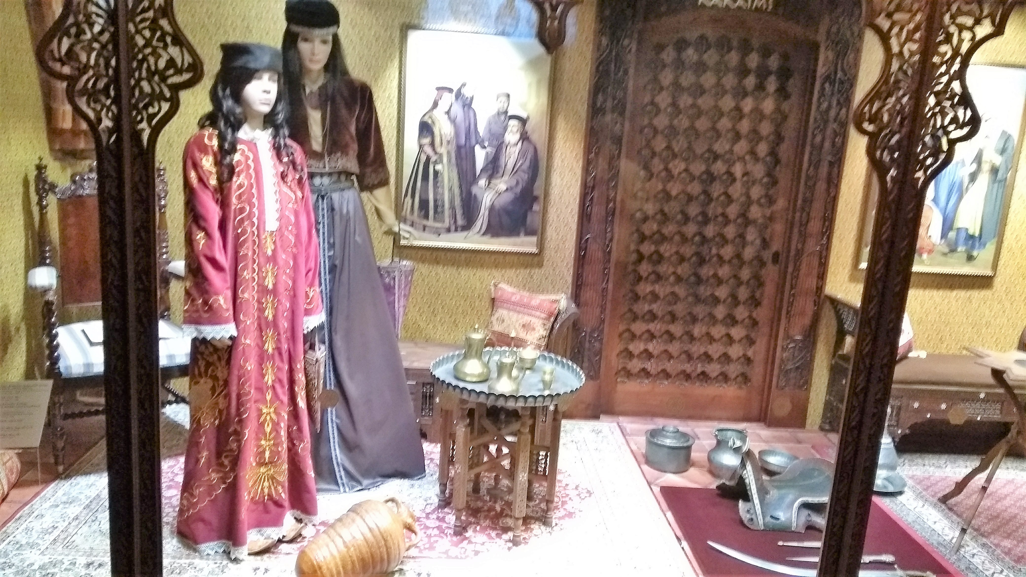 Photo of Crimean Karaites traditional clothes in Trakai, Lithuania.